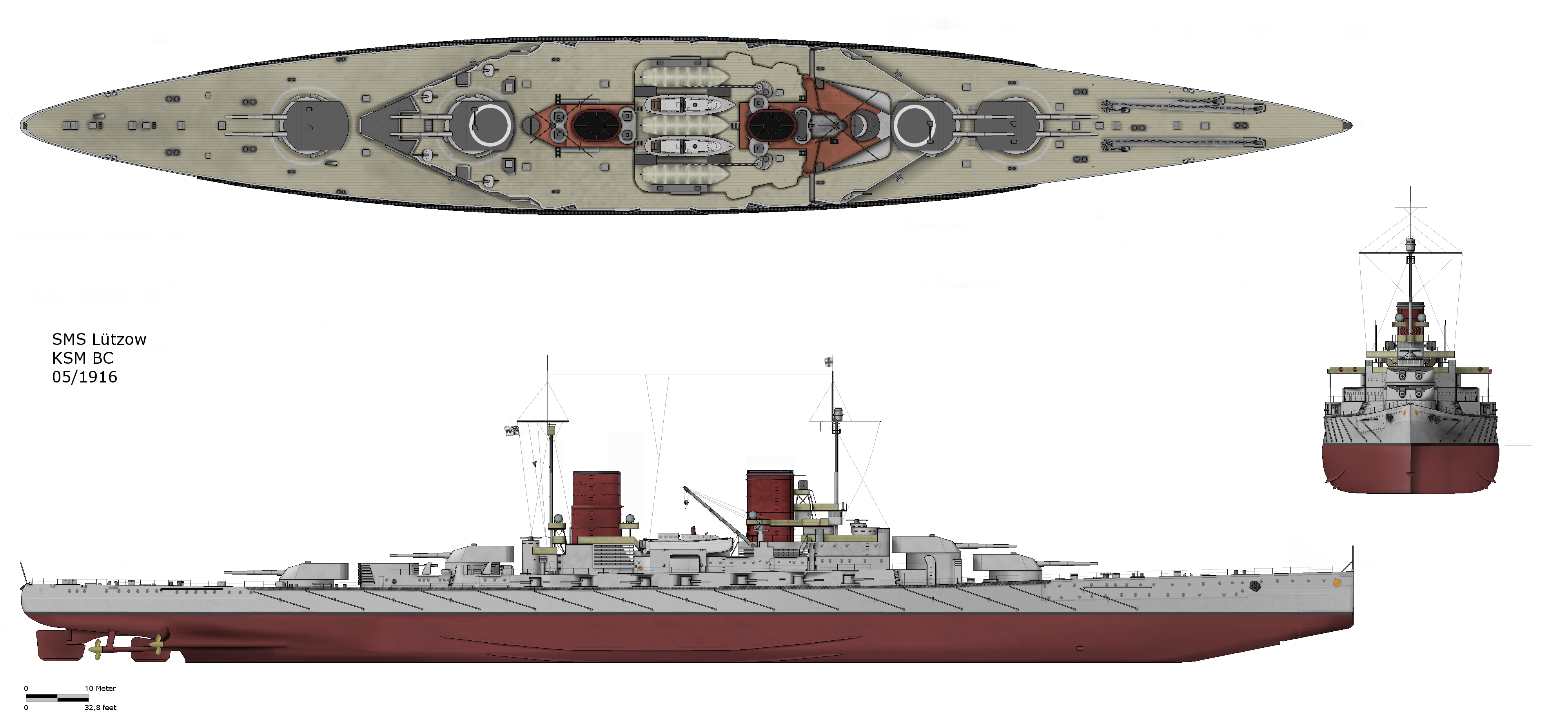 Drawing of the SMS Lützow in her configuration in May 1916. Additional info obtained from: Gary Staff: German Battlecruisers of World War One., Pen & Sword Books, 2014, ISBN 978-1848322134 Gerhard Koop), Klaus Schmolke: Vom Original zum Modell, Die großen Kreuzer - Von der Tann, Moltke-Klasse, Seydlitz, Derfflinger-Klasse Bernard & Graefe, 1997, ISBN 3763759735 Various photographs